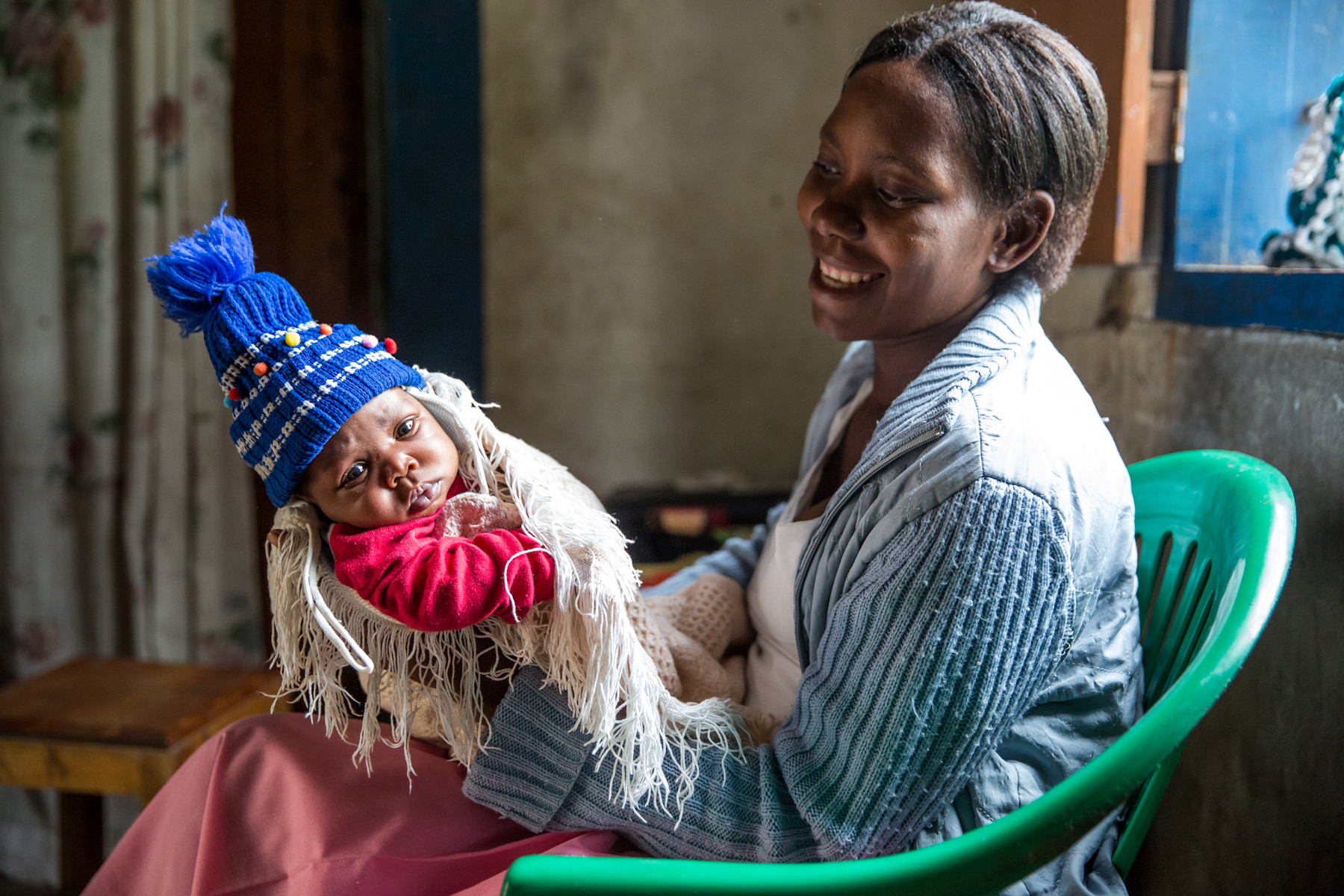 Rehema Roberts poses with her healthy newborn son Setu after receiving emergency transportation to her district hospital through the Mobilizing Maternal Health program Photo Credit Sala Lewis, Vodafone Foundation